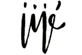 Jijé's signature